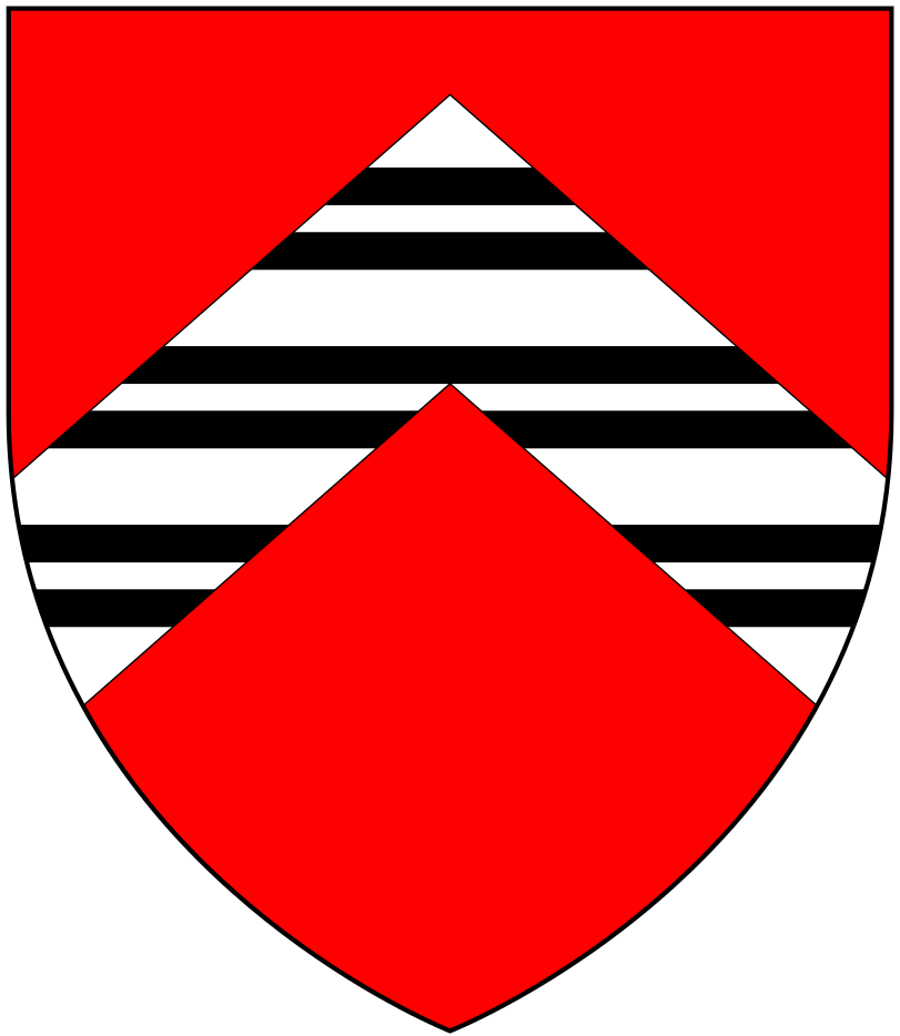 Armorials of Throckmorton of Tortworth, Gloucestershire and of Coughton, Warwickshire: Gules, on a chevron argent three bars gemelles sable